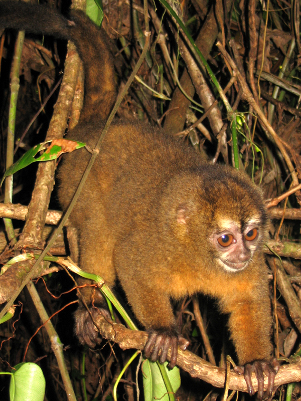 A Night Monkey (Aotus lemurinus zonalis) in Panama